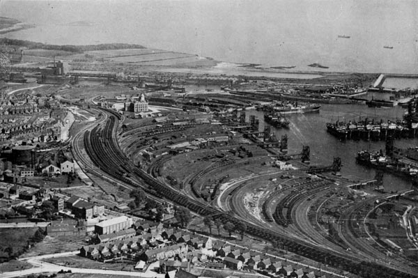 Barry No. 1 Dock, The Building of a Giant